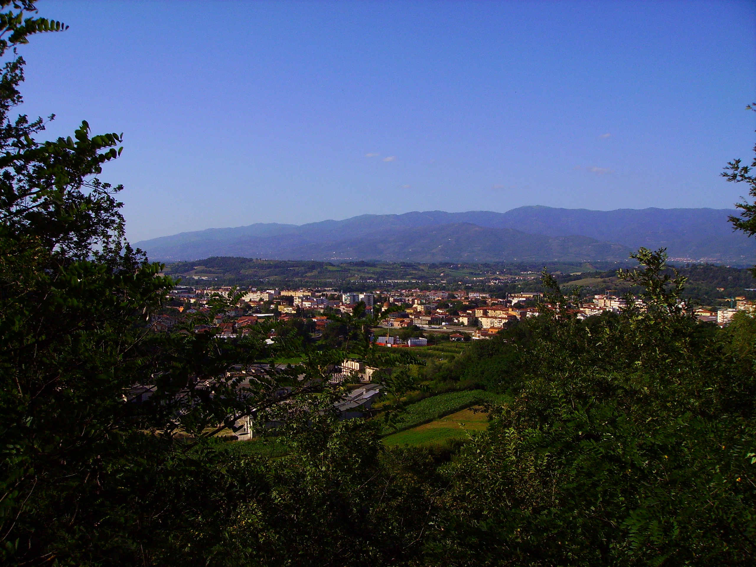 Panorama of Montevarchi from one of the watch point of the former castle